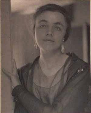 Alfred Stieglitz, Katharine Rhoades, 1915, 10x8 platinum